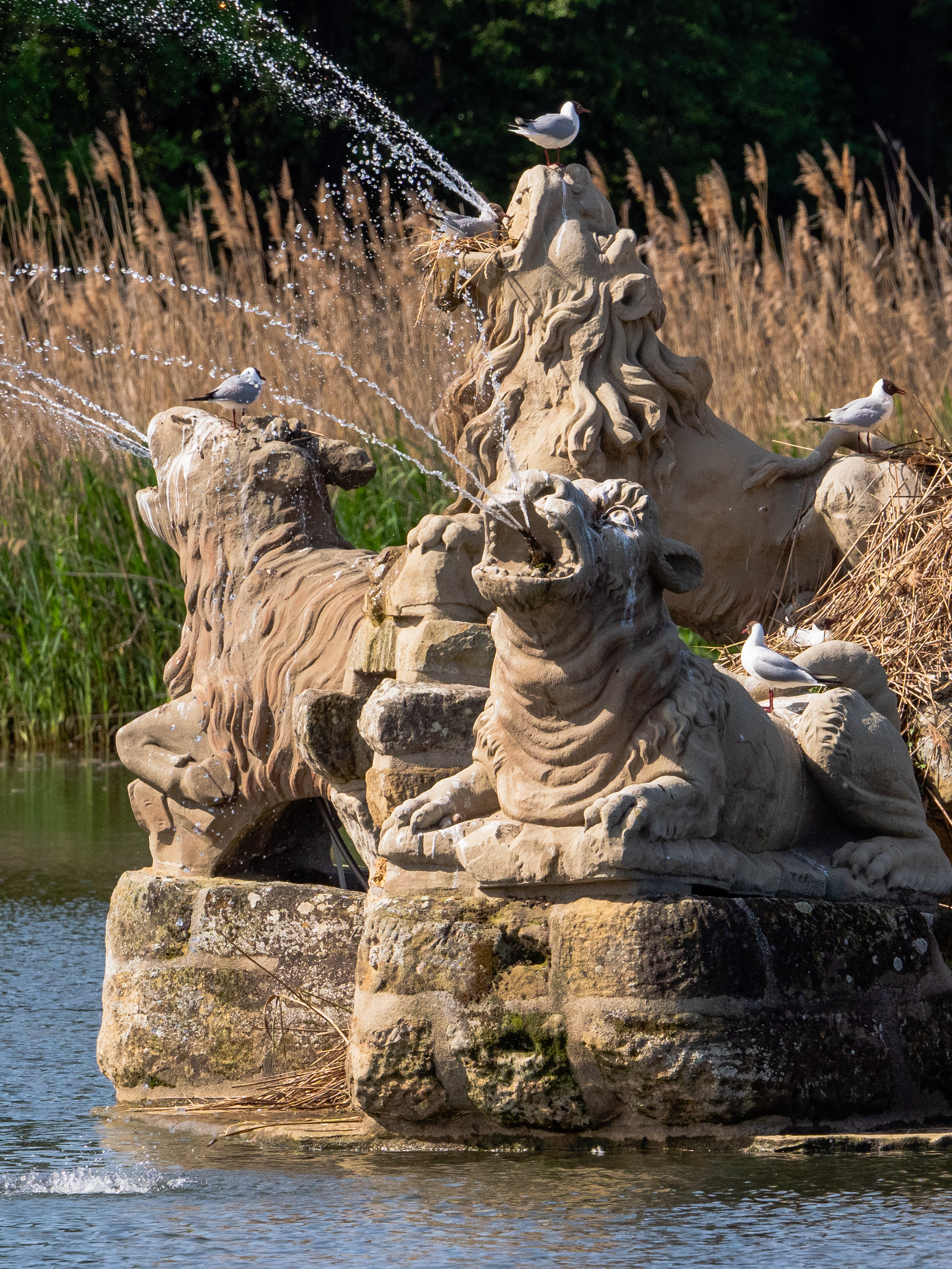 Black-headed gull colony on the fountain figures in the large pond of Schoss Seehof in Memmelsdorf in Upper Franconia